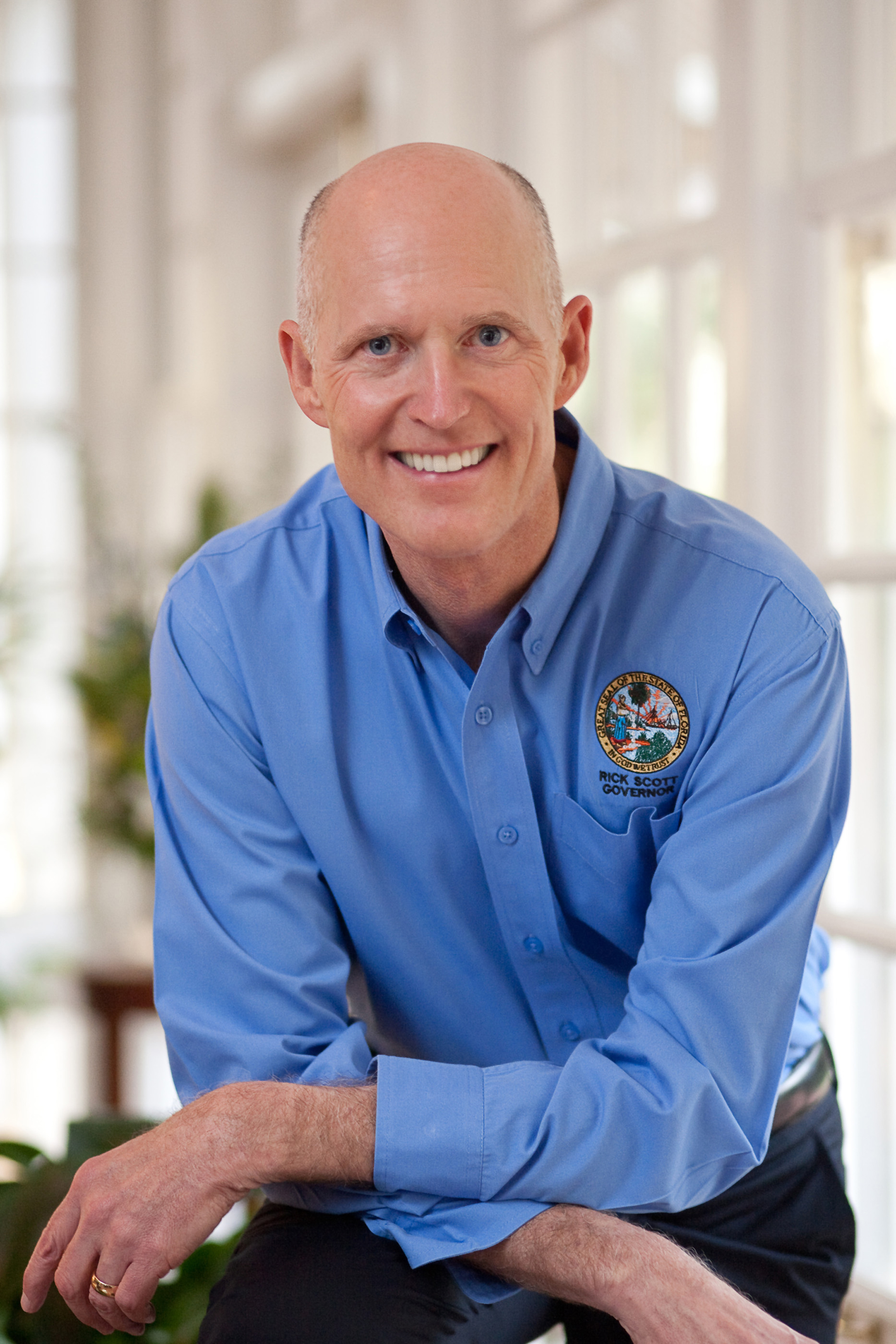 A photograph of Florida Governor Rick Scott wearing a blue shirt with the Florida Seal on it